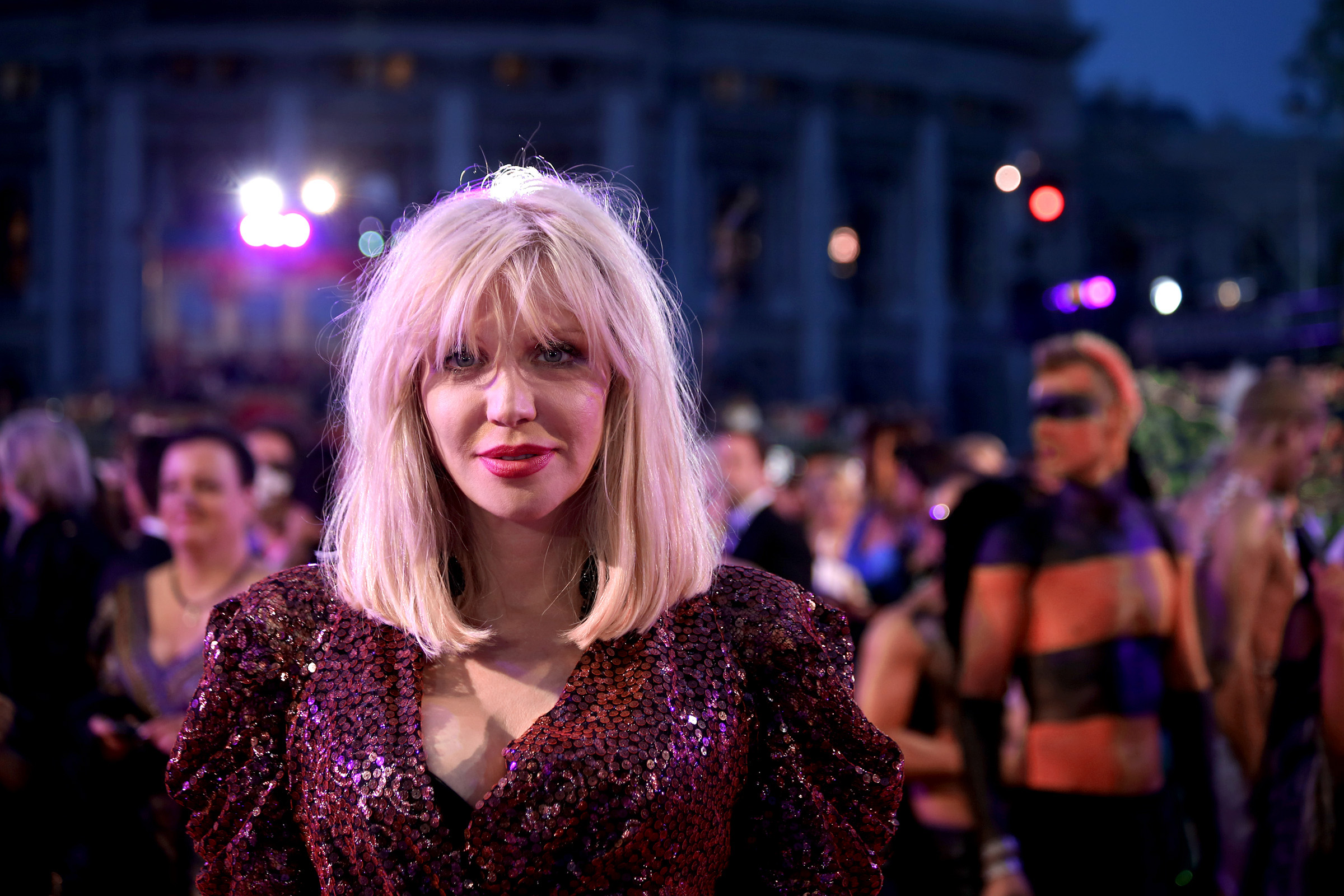 Life Ball 2014: Courtney Love on the red carpet on the square in front of the Rathaus (Town Hall) of Vienna, Austria.